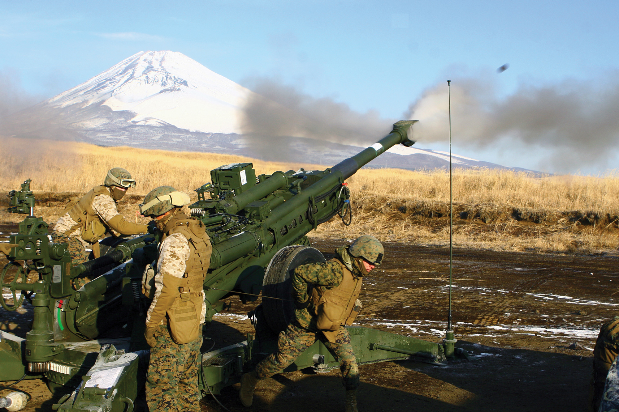 Cpl. Devin T. Kelly pulls the lanyard to fire the M777A2 howitzer during the live-fire portion of the Fuji Combined Arms Operation at the Combined Arms Training Center, Camp Fuji, Japan, Jan. 18. The Marines fired hundreds of rounds during the three-day operation. Kelly is an artilleryman with Golf Battery, 3rd Battalion, 12th Marine Regiment, 3rd Marine Division, III Marine Expeditionary Force.